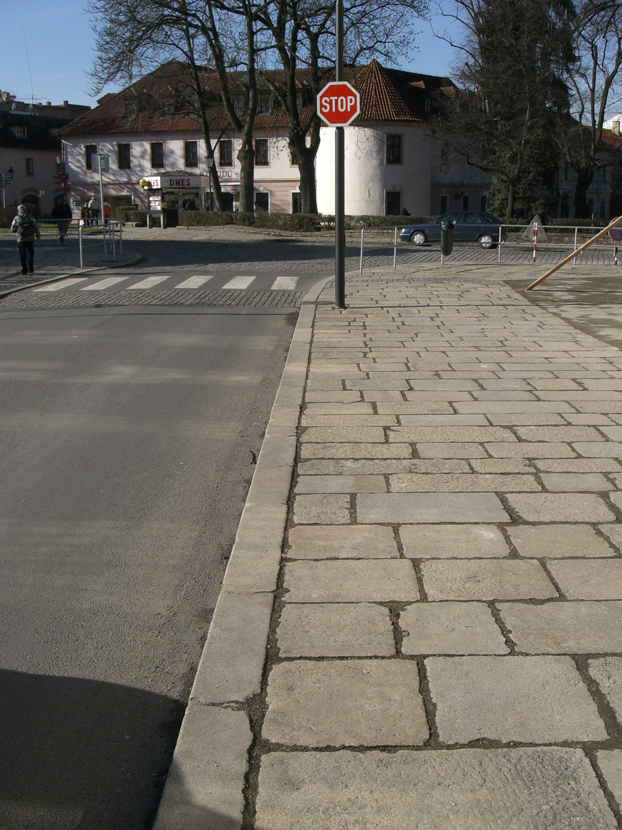 Curb, Písek